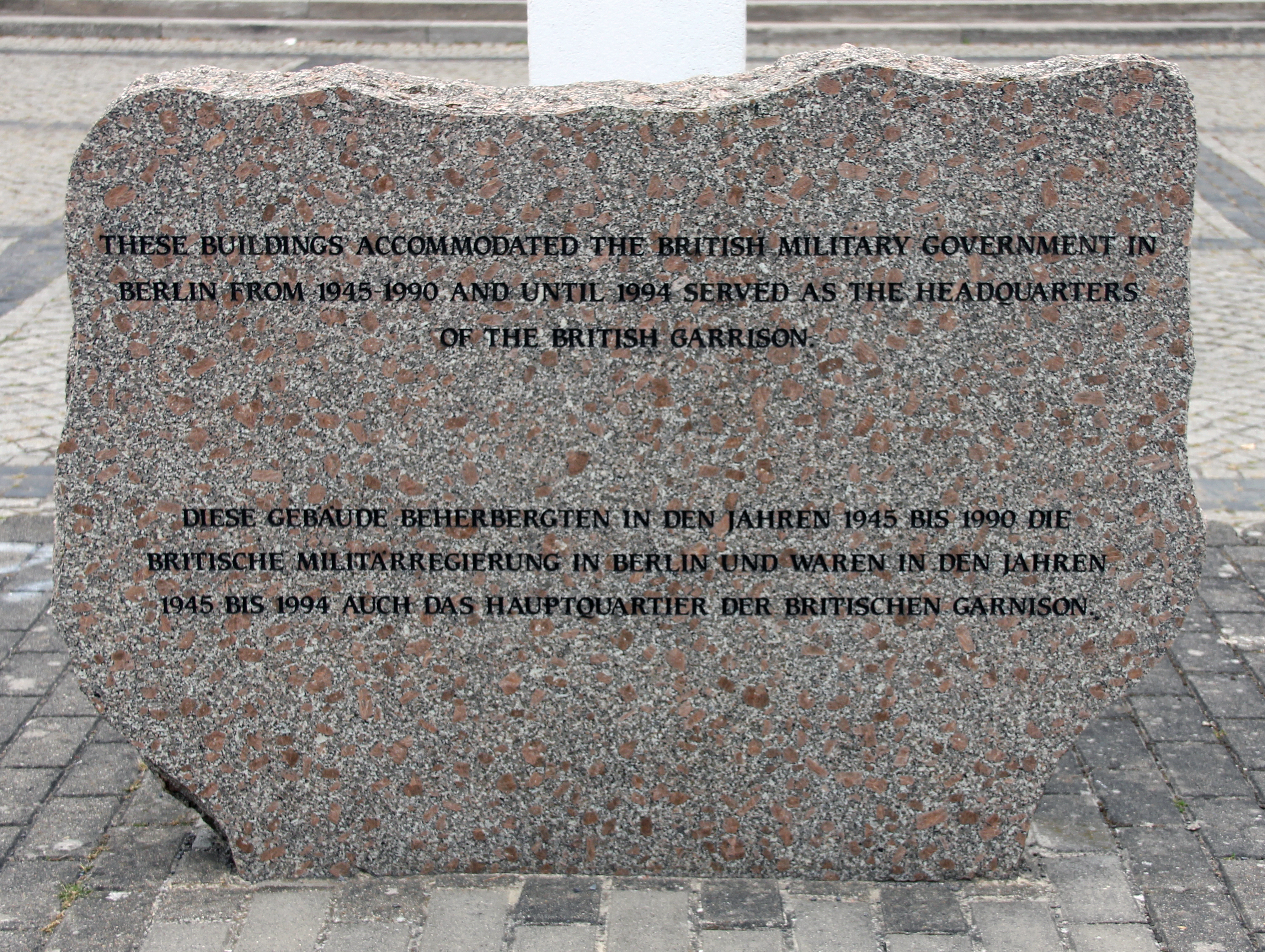 Memorial stone, Britische Militärregierung, Adlerplatz, Berlin-Westend, Germany